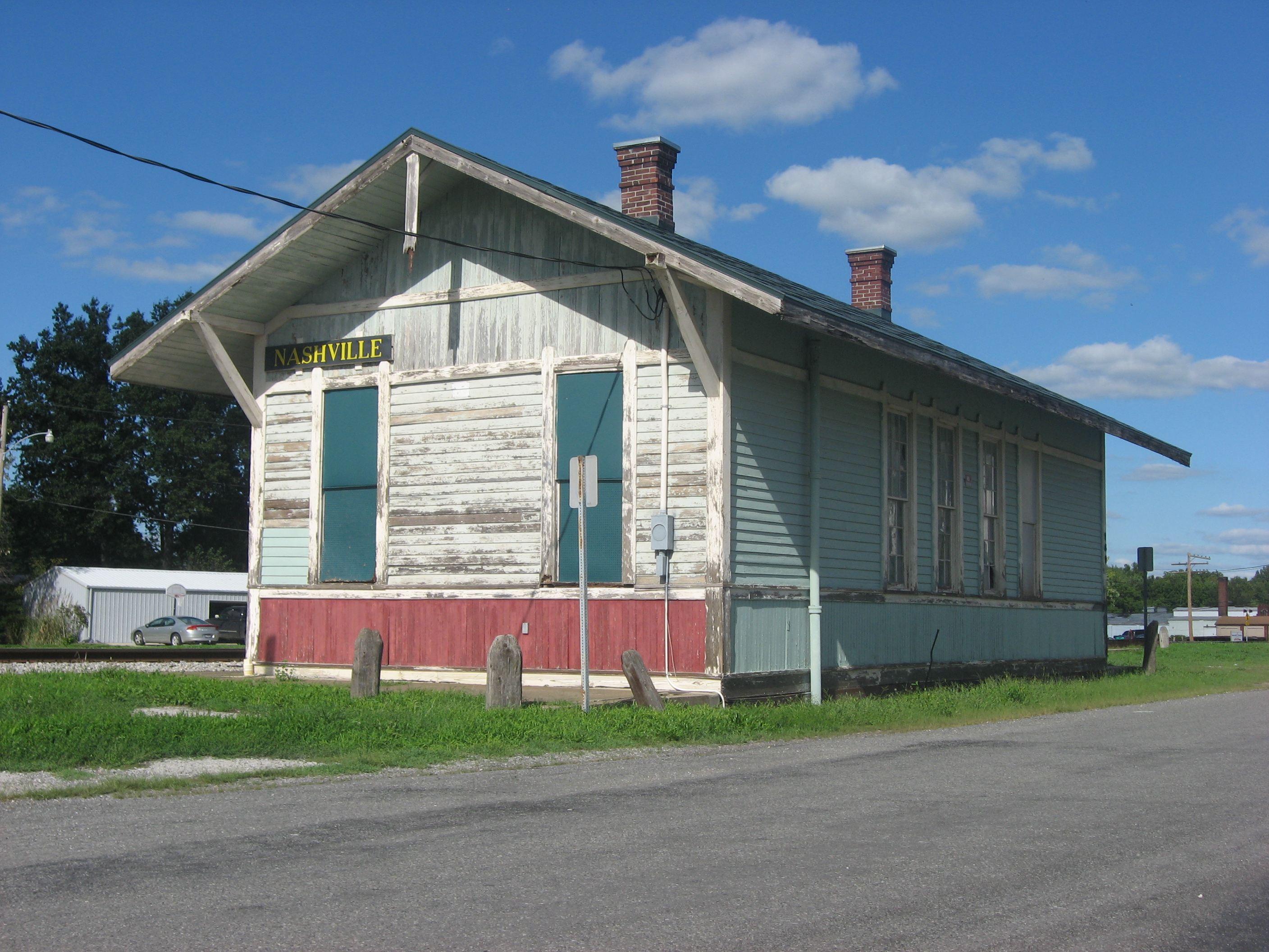 Southern side and western end of the Louisville and Nashville Depot, located at 101 E. Railroad Street in Nashville, Illinois, United States. Built in 1885, it is listed on the National Register of Historic Places.